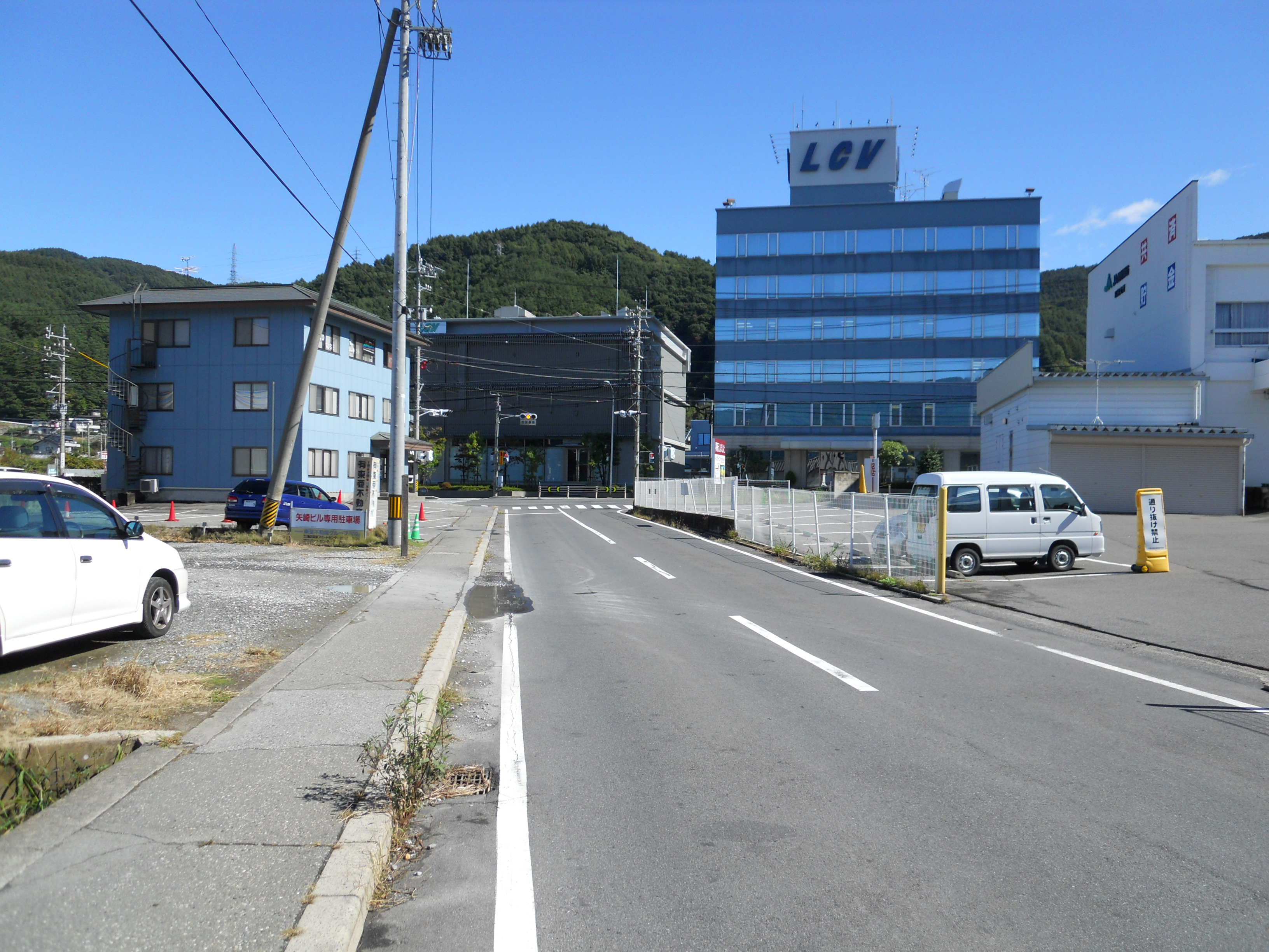 Shiga-Kuwabara Intersection on the Nagano Prefectural Road Route 183 in Suwa City